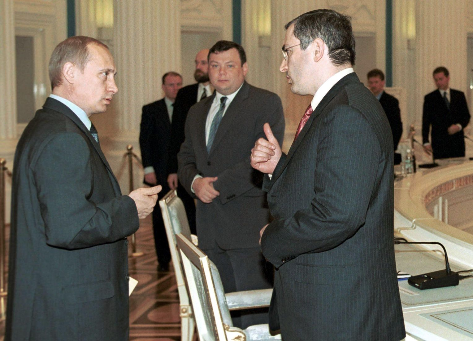 THE KREMLIN, MOSCOW. President Vladimir Putin with Mikhail Khodorkovsky, CEO of the Yukos oil company.